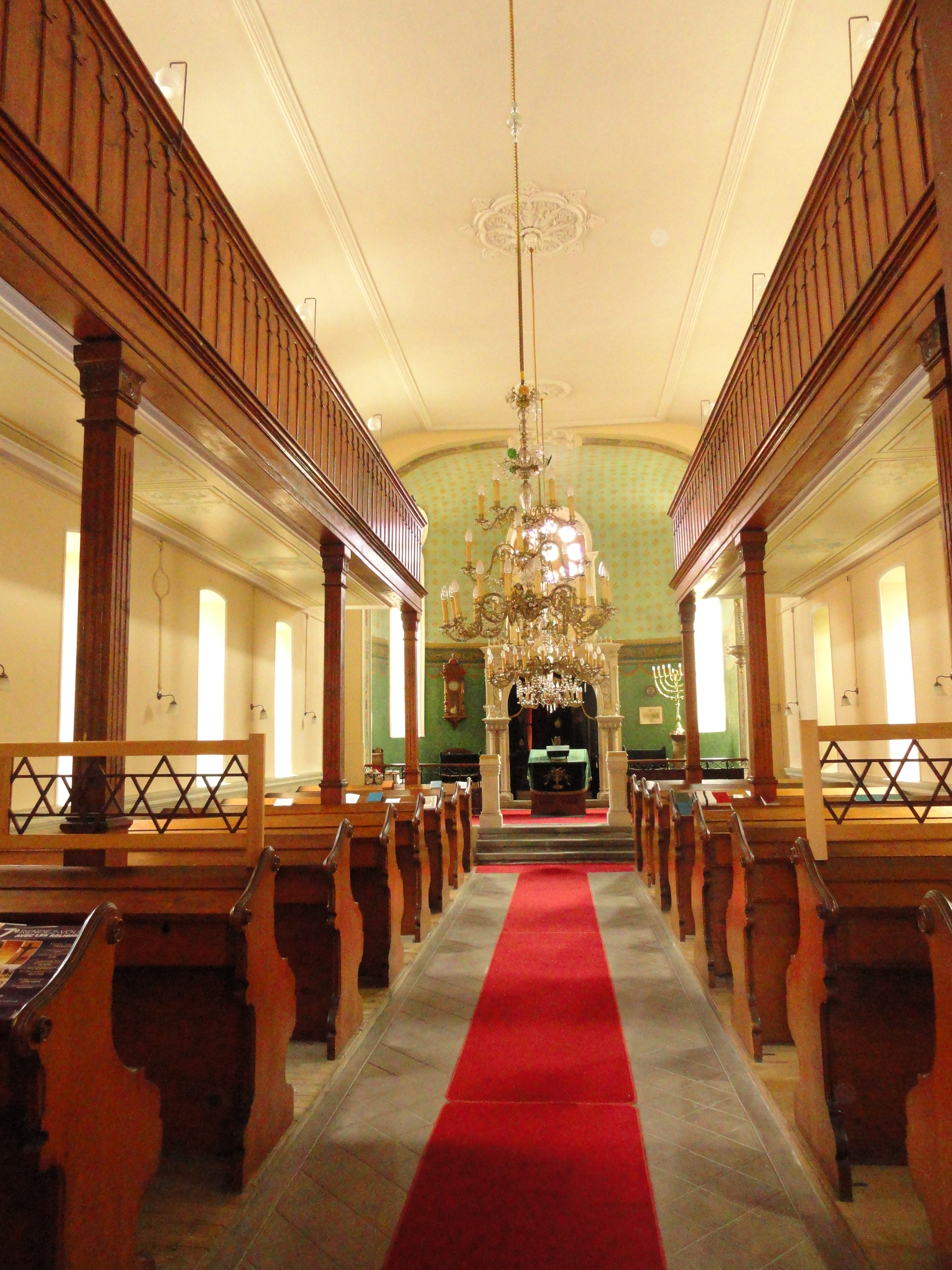 Internal view of the synagogue of Wolfisheim